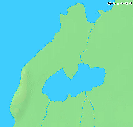 Lake Tåkern in Sweden, separated by hill Omberg from lake Vättern (left). Bounding box West 14.6°, South 58.28°, East 15°, North 58.48°. Center at 58°22′48″N 14°48′00″E / 58.38000°N 14.80000°E.